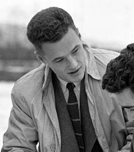 Stampeders football team players work out at UBC VPL Accession Number: 84330 Date: December 6, 1948 Photographer/Studio: Jones, Art Artray Content: Pete Thodos, Ced Gyles, Rod Pantages Part of a series A-B Topic: Football Sports teams Snow Organization: University of British Columbia Location: British Columbia - University Endowment Lands More information on our historical photograph collection